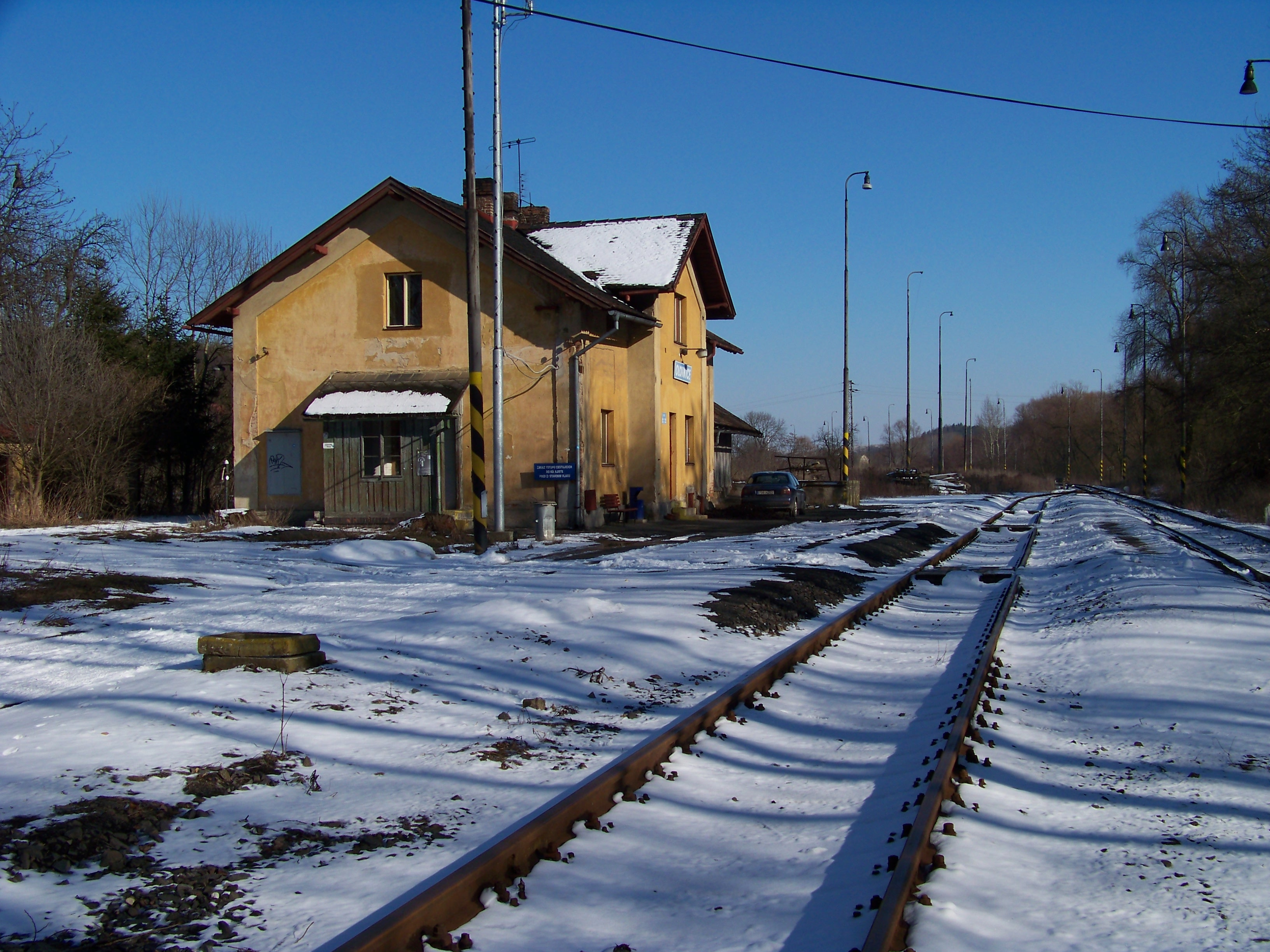 Olovnice, Mělník District, Central Bohemian Region, the Czech Republic. Train station. - Google Maps - Google Earth